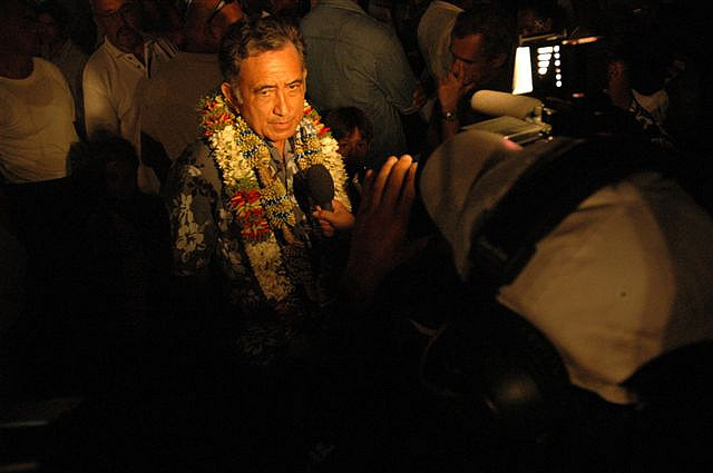 President of French Polynesia Oscar Temaru